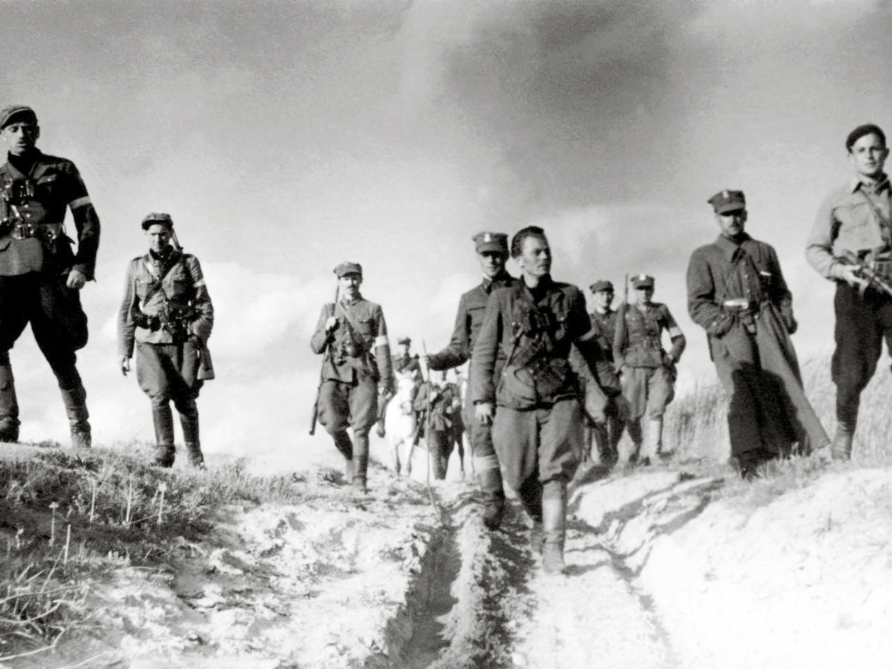 5 Brygada Wileńska Armii Krajowej w marszu. Od lewej: rtm. Zygmunt Szendzielarz - "Łupaszka", kapelan - ks. Aleksander Grabowski "Ignacy" (piąty z lewej), dowódca 1 kompanii 5 Brygady - ppor. Wiktor Wiacek "Rakoczy" (szósty z lewej), por. Grabowski "Pancerny"(dziewiąty z lewej) i ppor. Sergiusz Sprudin - fotoreporter z Komendy Okręgu Wileńskiego AK